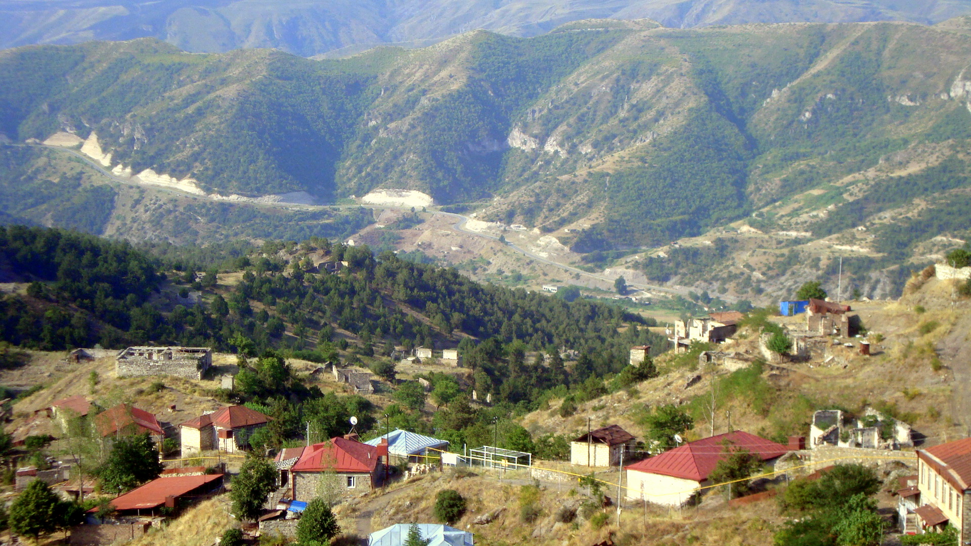 A view of the city. Lachin, Republic of Azerbaijan.